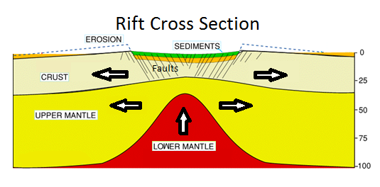 General cross section of a typical rift.